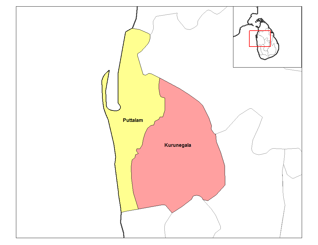 Map of the districts of North Western province in Sri Lanka. Created by Rarelibra 12:57, 19 September 2006 (UTC) for public domain use, using MapInfo Professional v8.5 and various mapping resources.